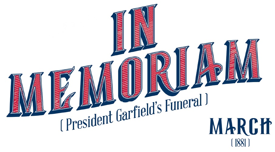 Section of title page of the 2016 publication of "In Memoriam" by the U.S. Marine Band.